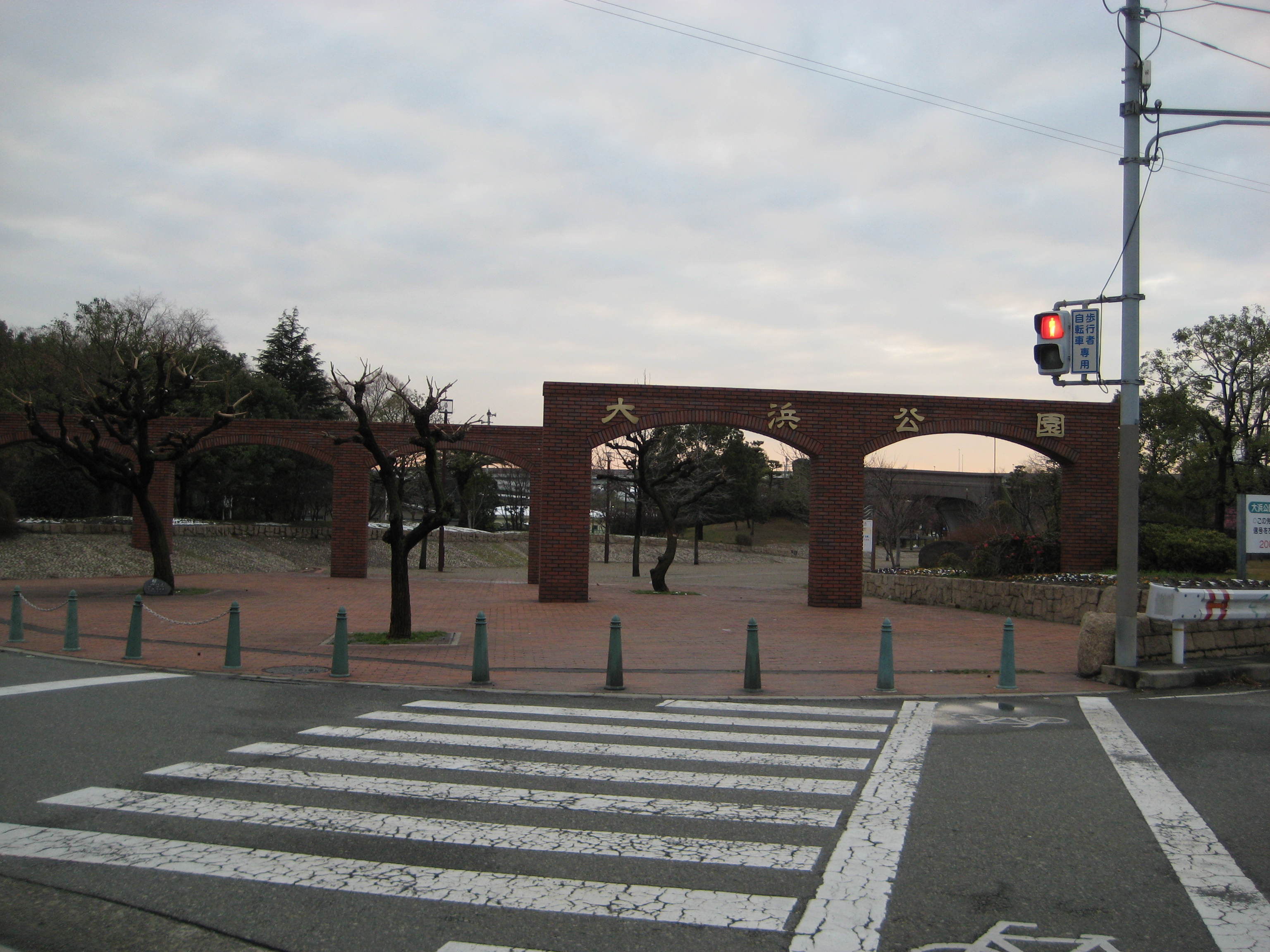 Ohama Park entrance. Sakai-ku Sakai-shi OSAKA,JAPAN